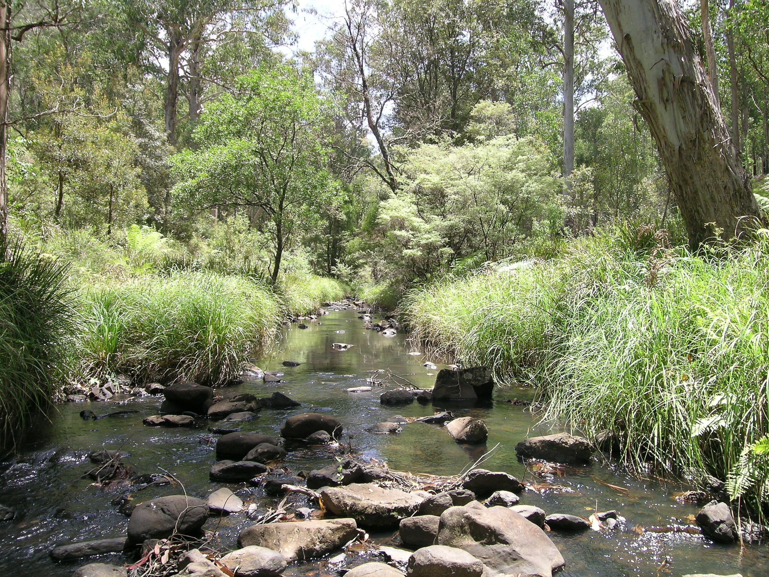 Werrikimbe National Park, Yarrowitch, NSW